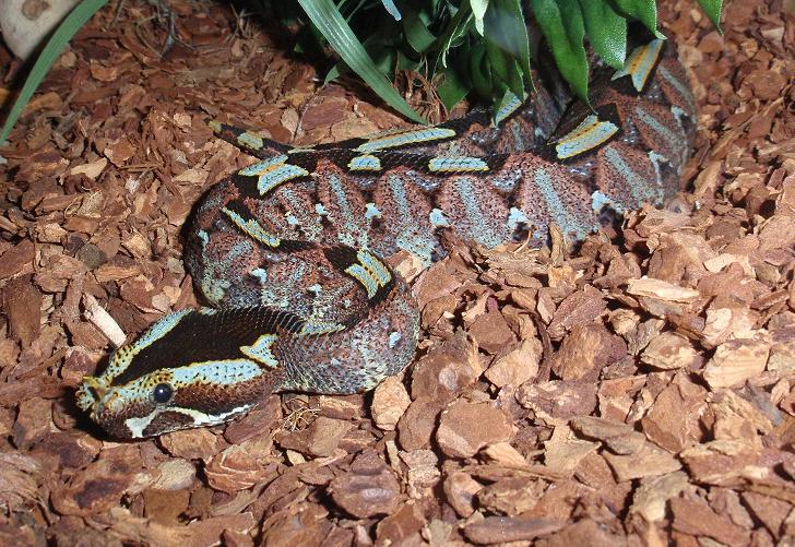 A 2009 neonate/juvenile Bitis Nasicornis